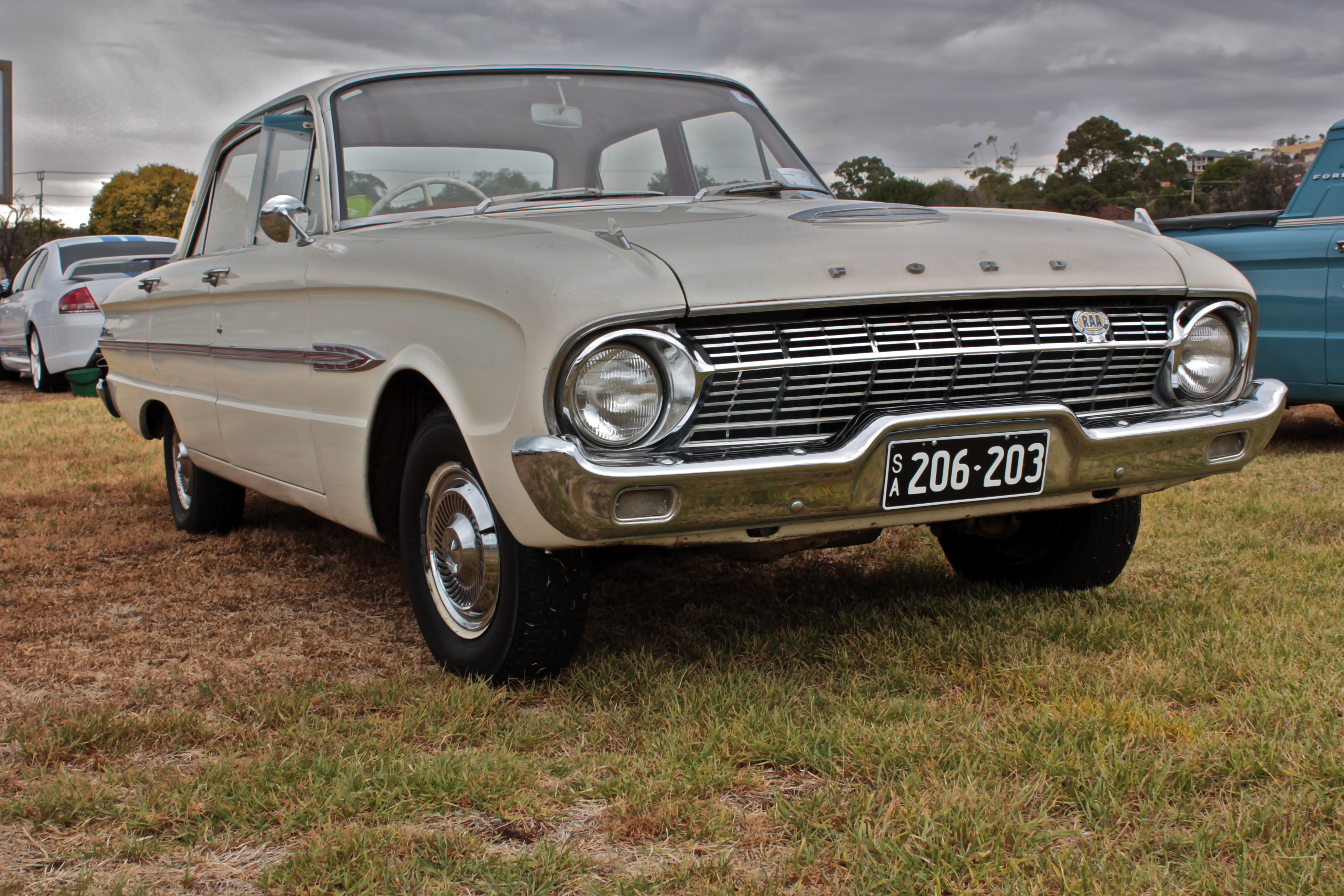 Australian 1962 Ford XL Falcon Futura Sedan